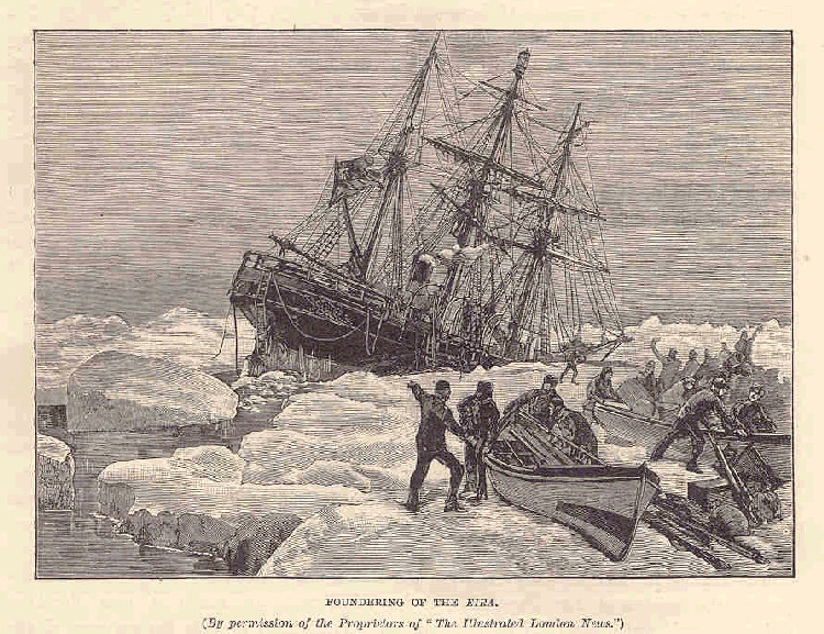 Foundering of the Eira By permission of the Proprietors of 'The Illustrated London News.;; Subject: Shipwrecks, Eira (ship) Tag: Expositions, Vessels